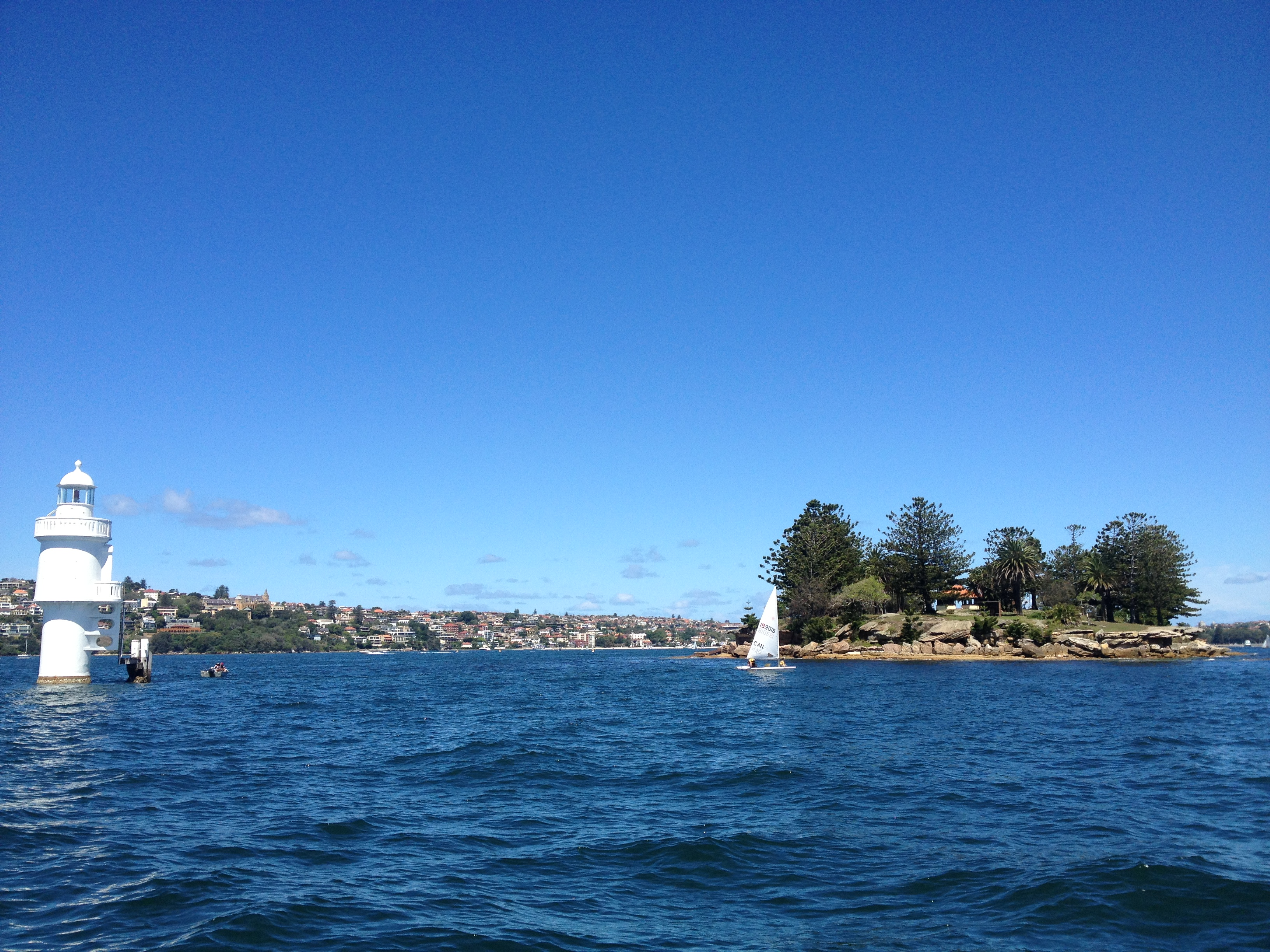 Shark Island and marker light, Sydney harbour.